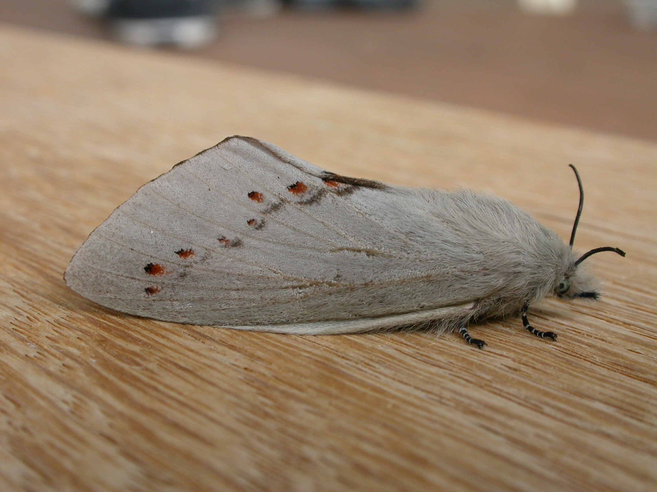 Pinara metaphaea (Walker, 1862), female, to MV light, Blackheath, NSW, 23/24 January 2011 Determination based on wing shape, forewing colouration and light grey tuft at tip of abdomen.